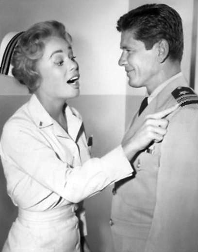 Publicity photo of Charles Bronson and Abby Dalton from the television program Hennessey.